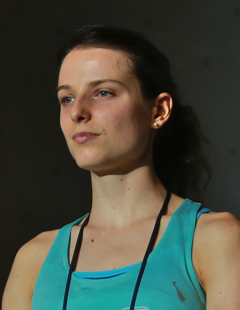 Finalists of IFSC Climbing World Championships Innsbruck 2018 Final WOMAN lead